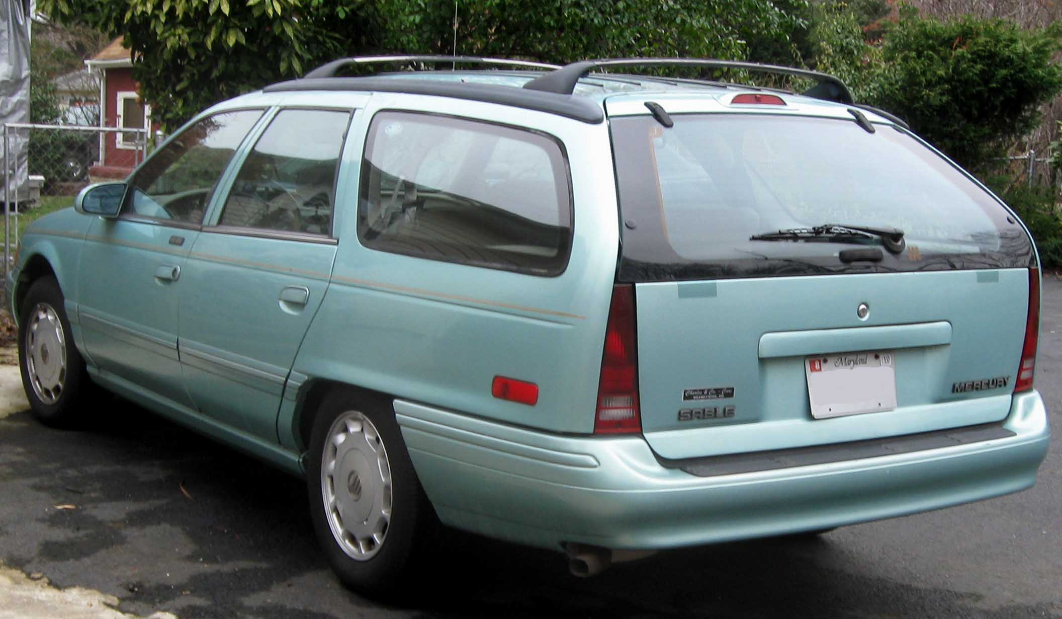 1994-1995 Mercury Sable photographed in Fort Washington, Maryland, USA.